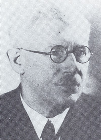 Roman Witkiewicz Polish scientist , university professor at the Lviv Polytechnic. He was murdered by German Gestapo in the Massacre of Lviv professors 4.07.1941 in Lvov.